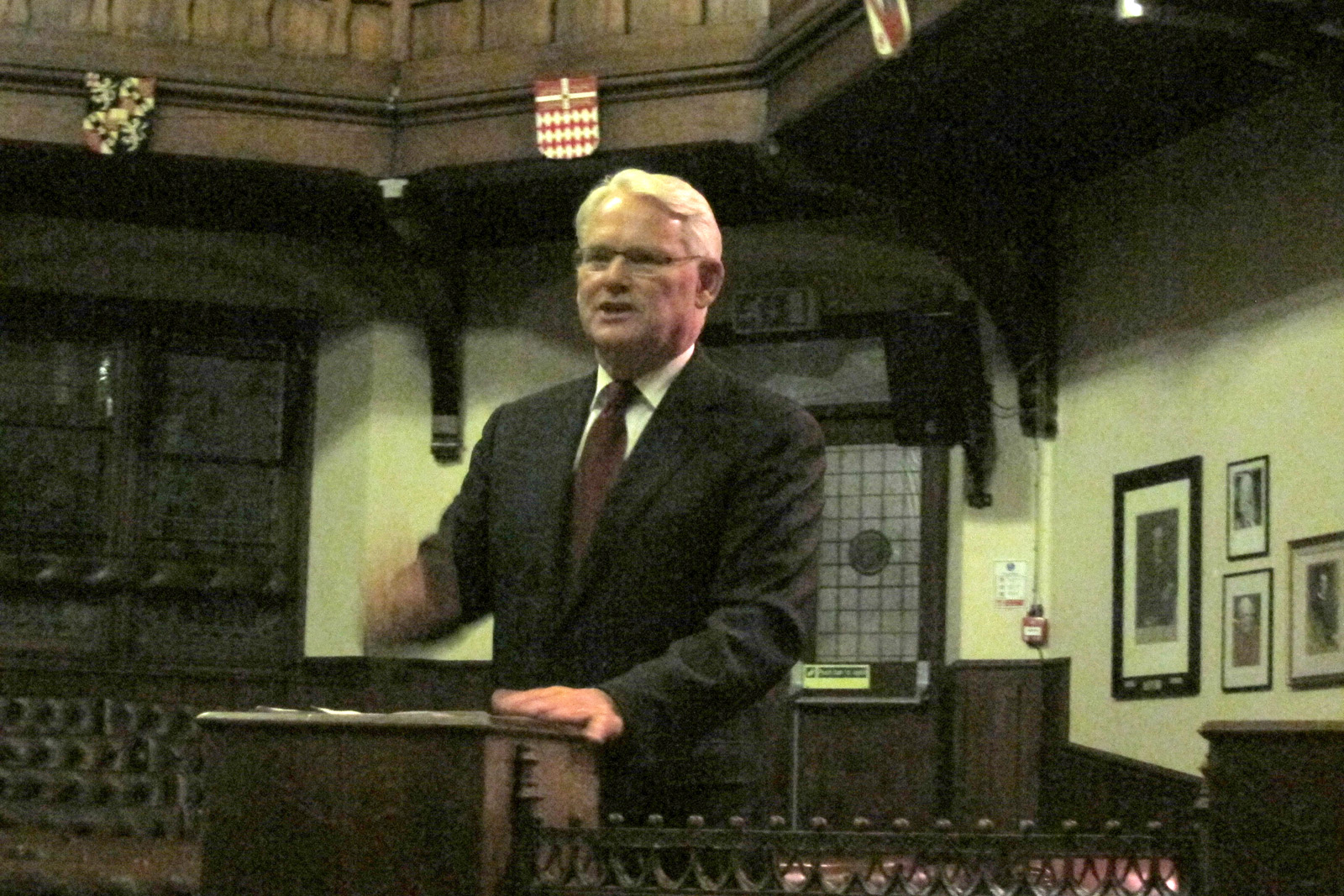 Gordon Campbell speaking at the Cambridge Union Society